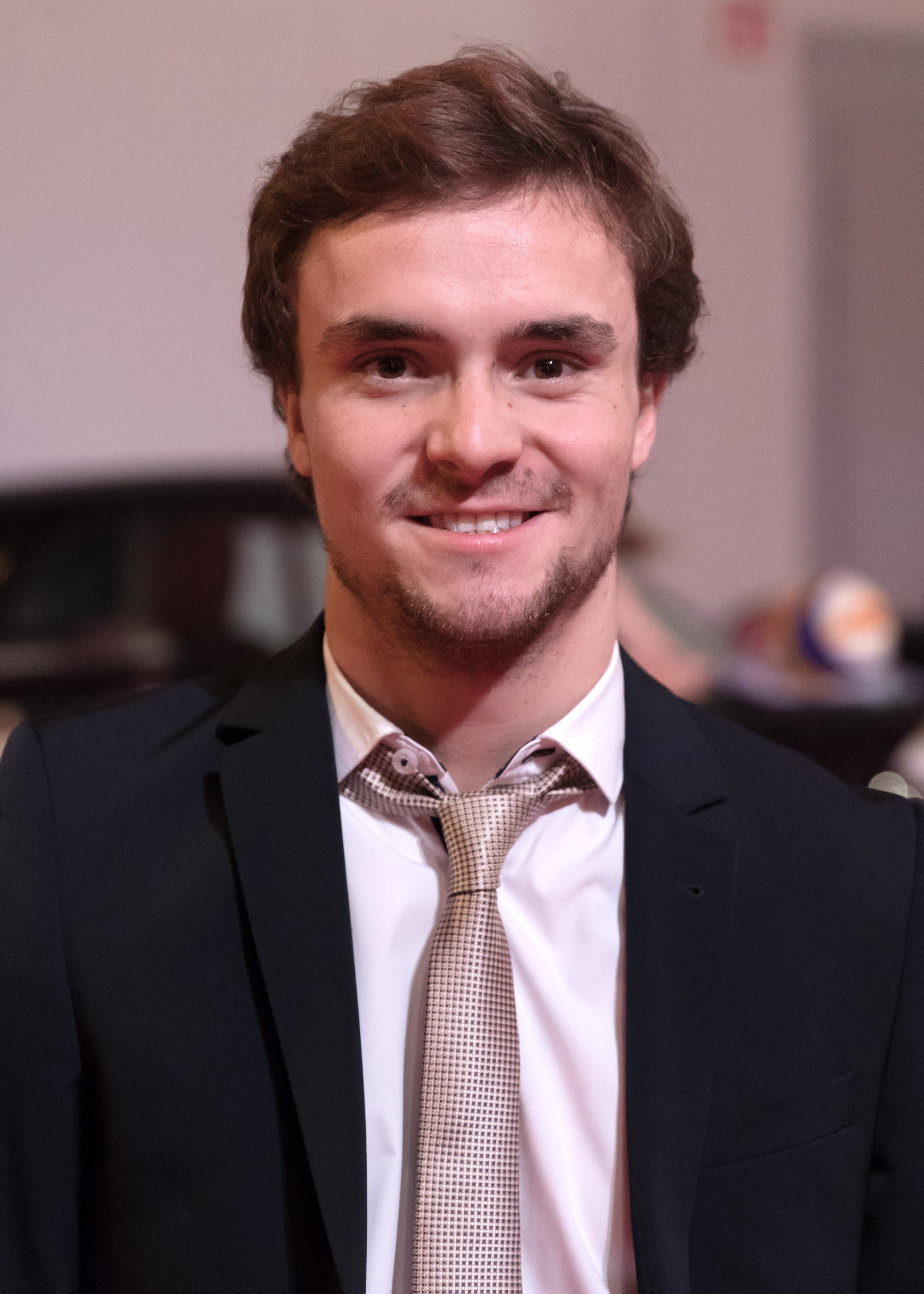 Lucas Auer at the gala for the Austrian Sports Personalities of the Year 2017, at Marx Halle (Sankt Marx, Vienna, Austria).